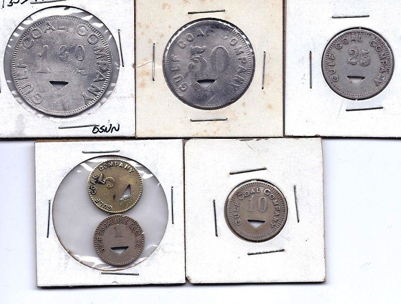 A full sert of Coal Scrip from Hot Coal West Virginia